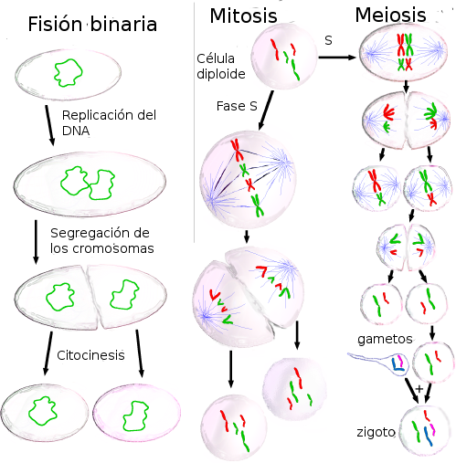 Traducción al castellano de Three cell growth types.png; spanish translation